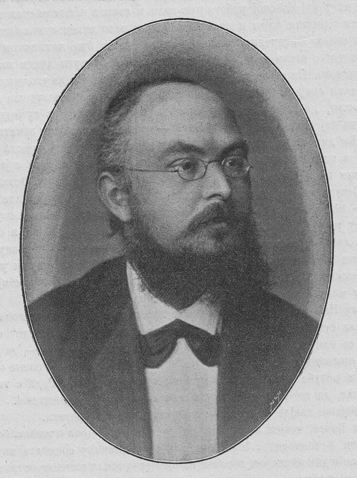 A photograph of Dr Ilija Ognjanović Abukazem (1845-1900), Serbian physician, writer, humorist and magazine editor. Srpski (latinica): Fotografija dr Ilije Ognjanovića Abukazema (1845-1900), srpskog lekara, književnika, humoriste i urednika časopisa.